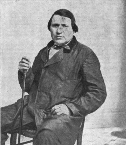 James Ketchum (b.1819), Delaware tribe, of Kansas and Oklahoma, USA